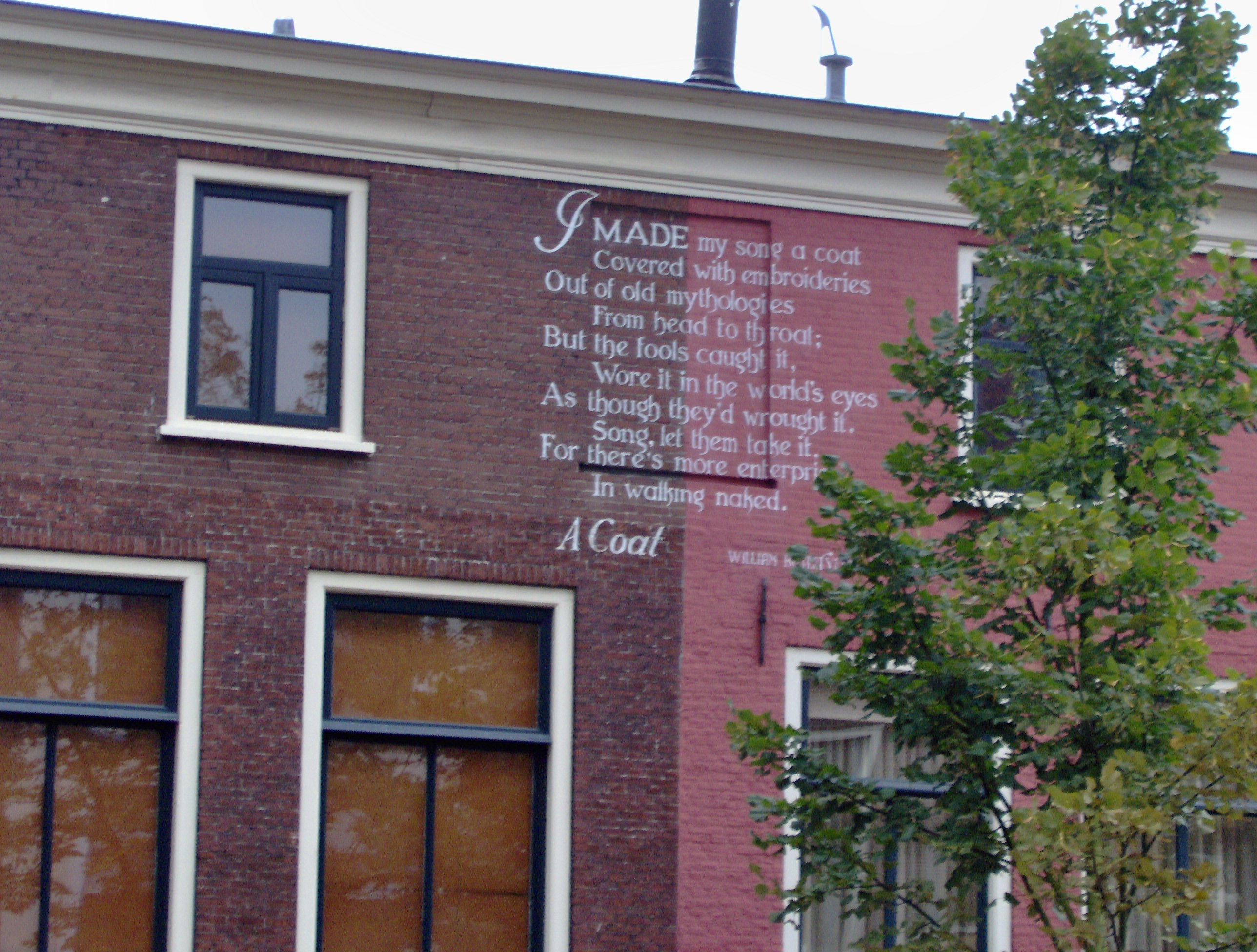 The poem A coat of the Irish poet William Butler Yeats on the front wall of the buildings at Lange Mare 31 and 33 in Leiden, The Netherlands